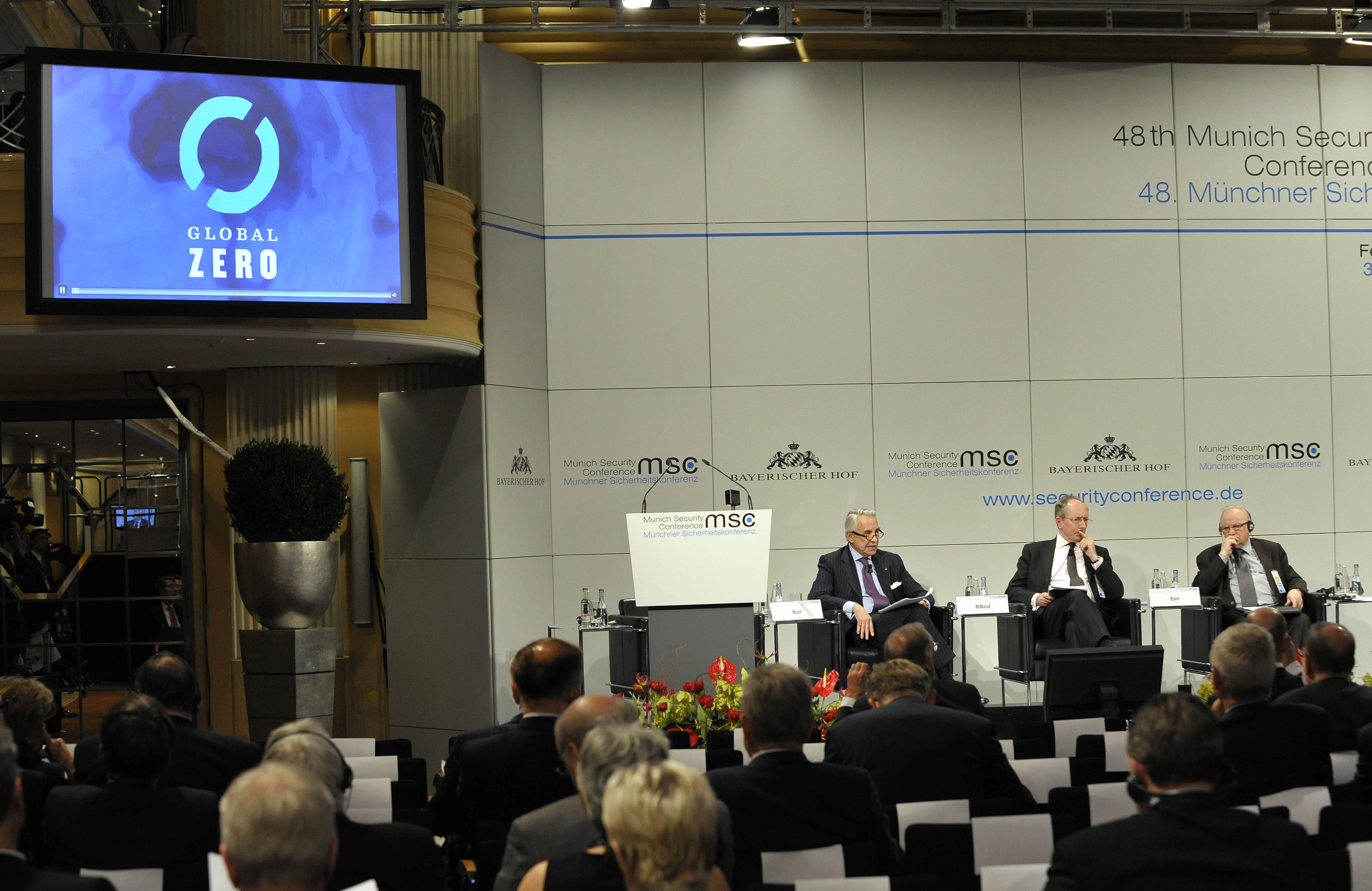 48th Munich Security Conference 2012: Impressions on Saturdayafternoon.